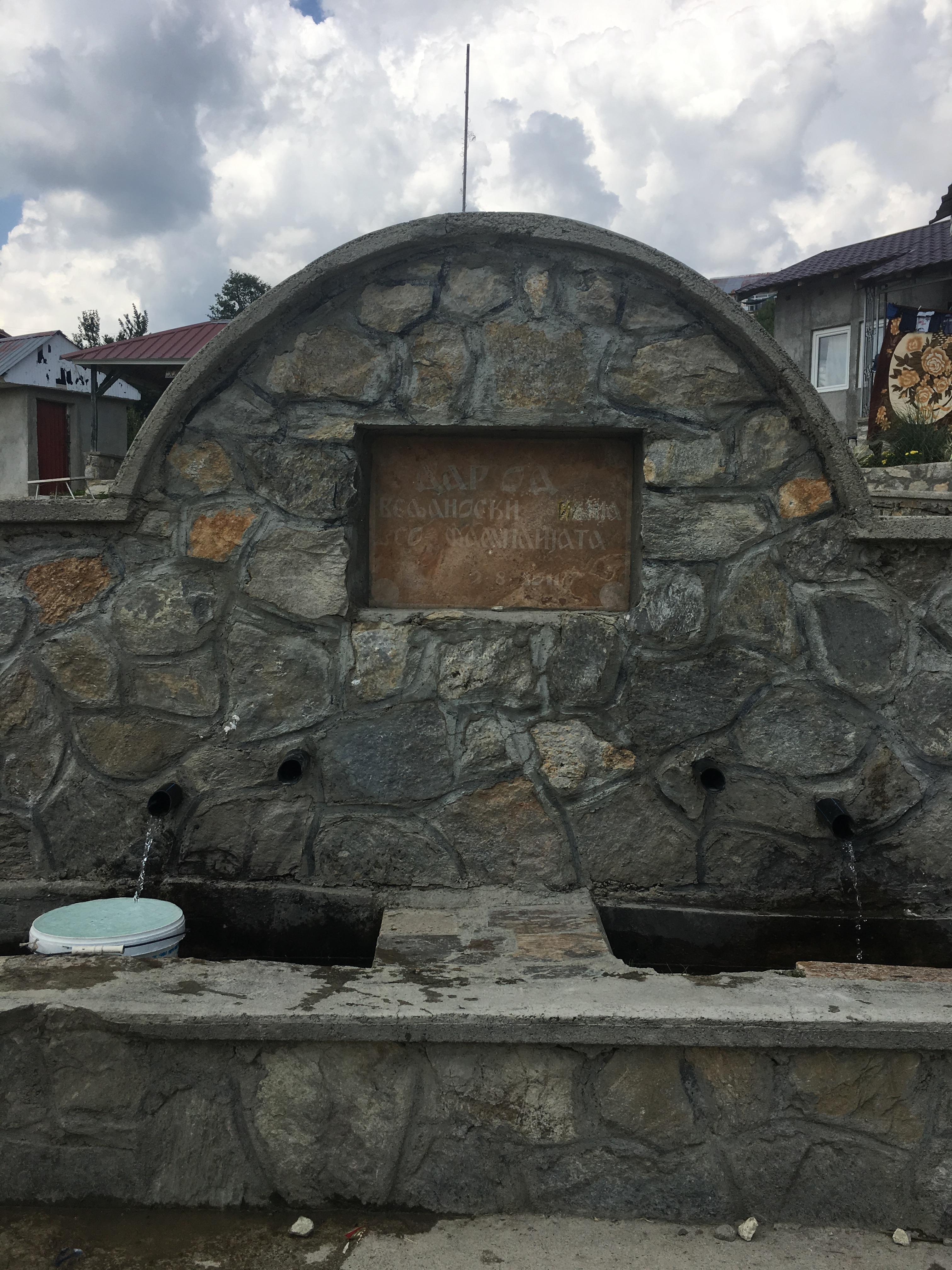 A pump in the village of Plaḱe